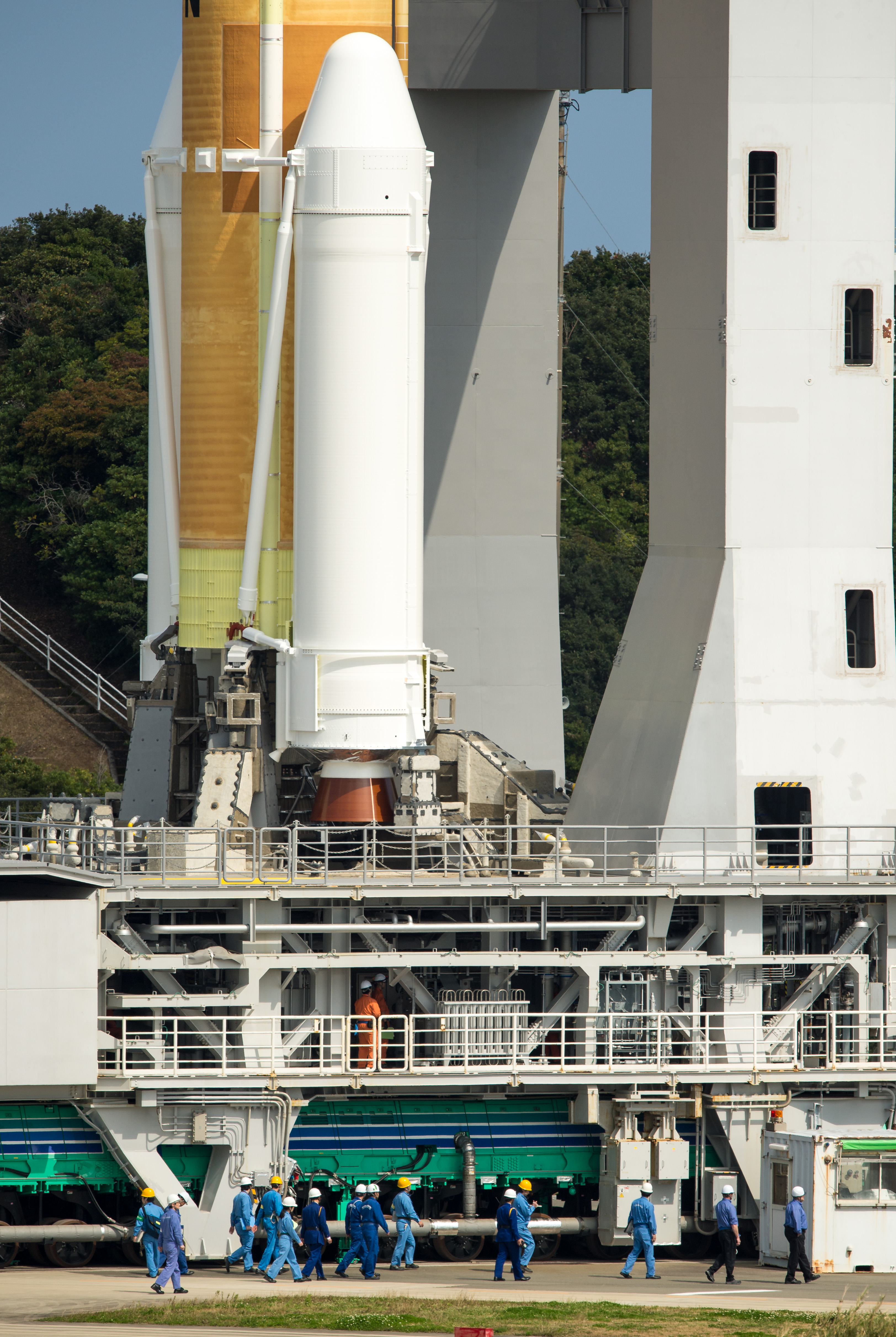 GPM Rolllout to Launchpad A Japanese H-IIA rocket carrying the NASA-Japan Aerospace Exploration Agency (JAXA), Global Precipitation Measurement (GPM) Core Observatory is seen as it rolls out to launch pad 1 of the Tanegashima Space Center, Thursday, Feb. 27, 2014, Tanegashima, Japan. Once launched, the GPM spacecraft will collect information that unifies data from an international network of existing and future satellites to map global rainfall and snowfall every three hours.